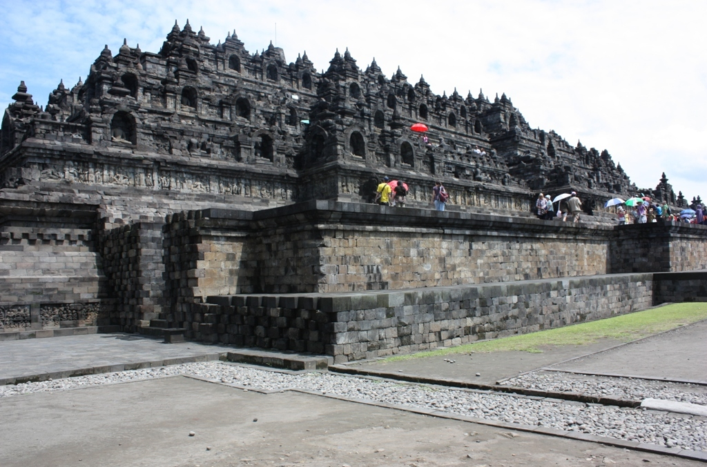 Borobudur Temple, A Cultural Heritage in Indonesia